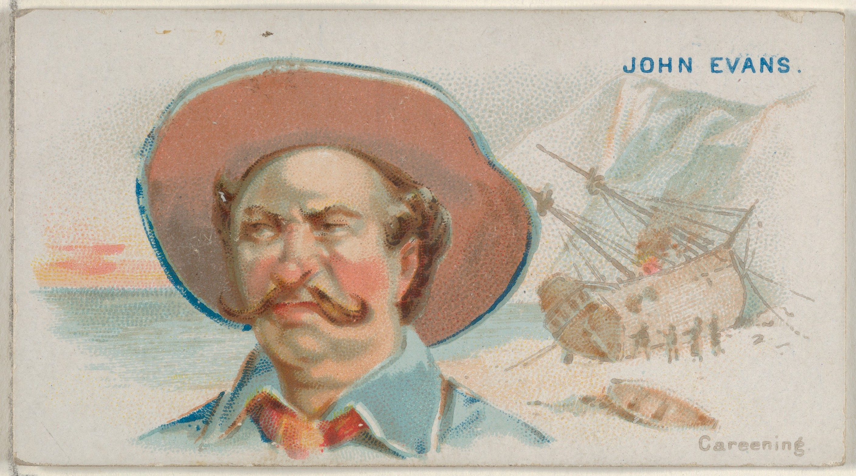 Print; Prints